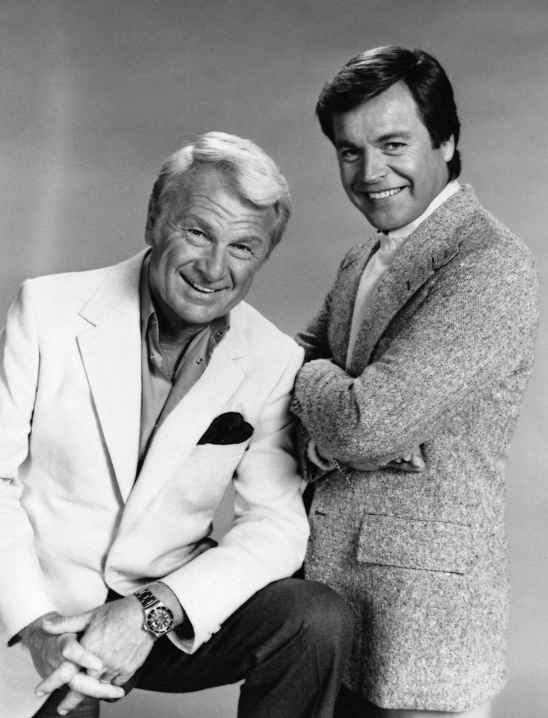 Photo of Eddie Albert and Robert Wagner from the premiere of the television program Switch!.